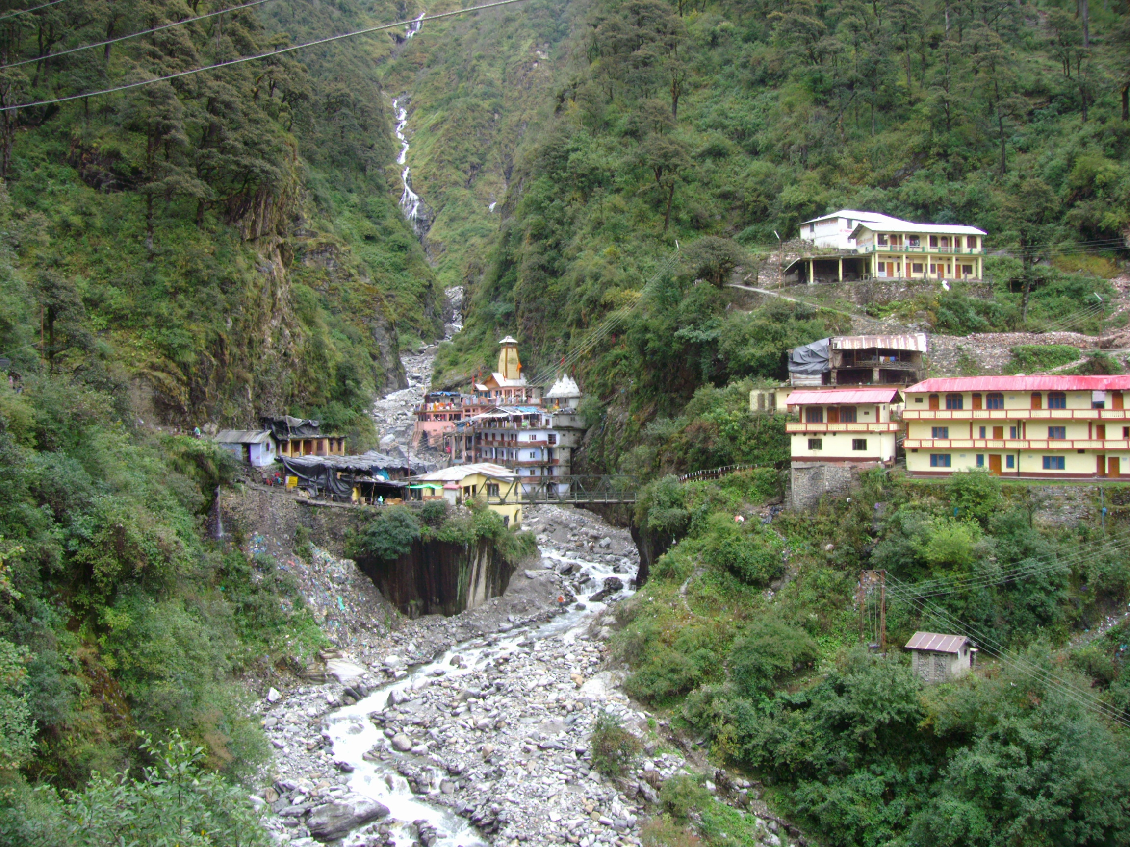 The temple compound at Yamunotri, source of Yamuna River in Uttaranchal, India